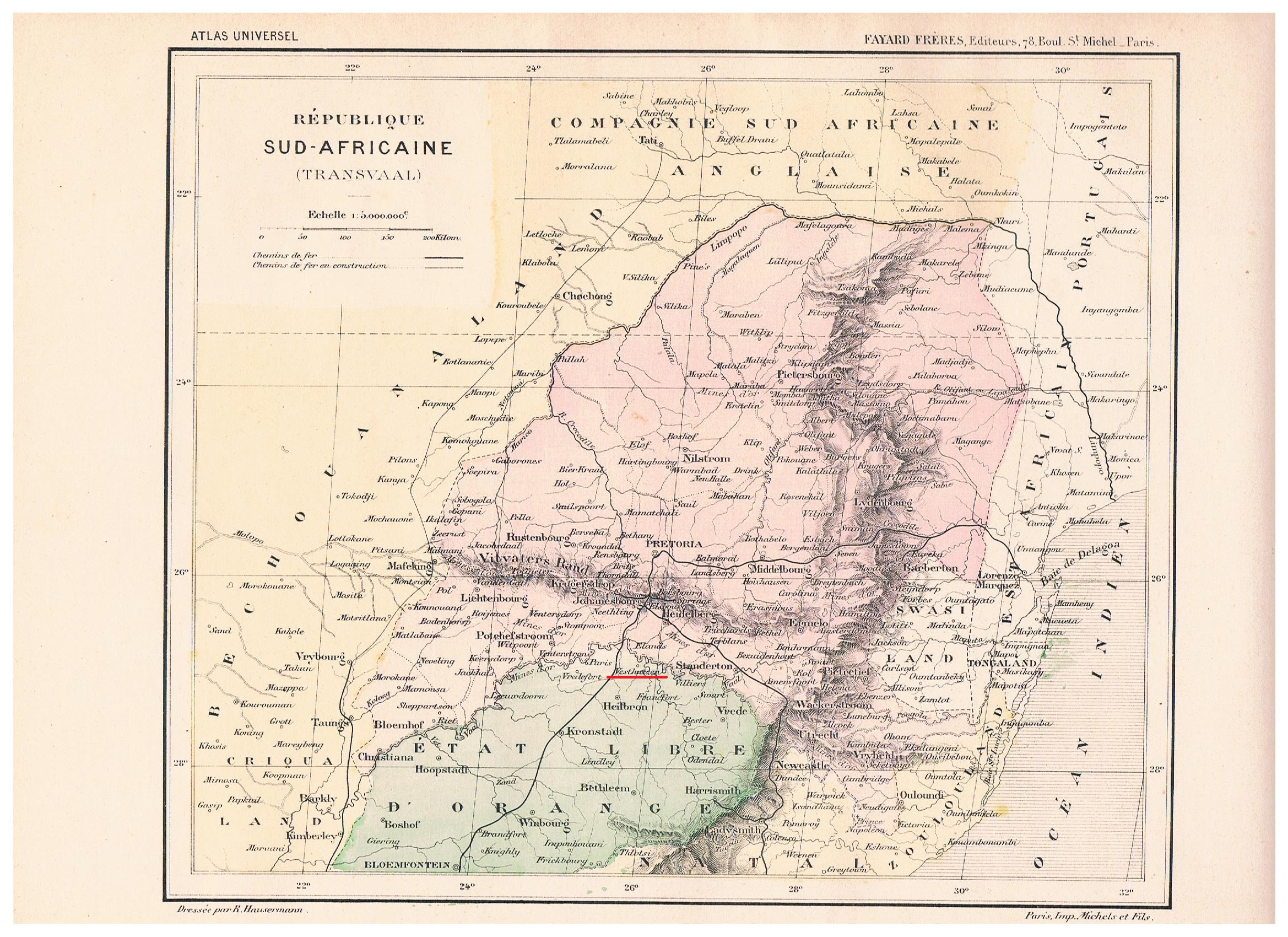 1896 original carte ancienne de Republique Sud-Africaine Transvaal